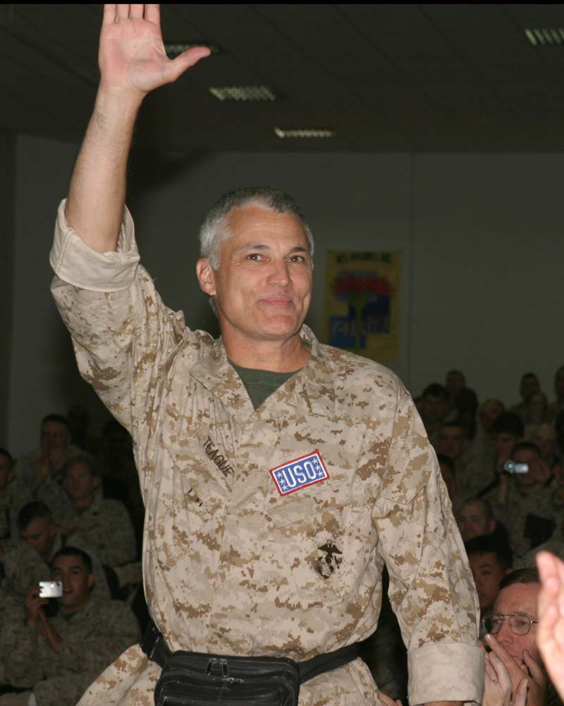 061101-M-8741C-025 Actor Marshall Teague waves to U.S. Marines as he is welcomed into the Chapel of Hope on Camp Fallujah, Iraq, Nov. 1, 2006. Teague is in Iraq on a United Service Organizations (USO) tour. (U.S. Marine Corps photo by Cpl. Louis T. Corwise) (Released)